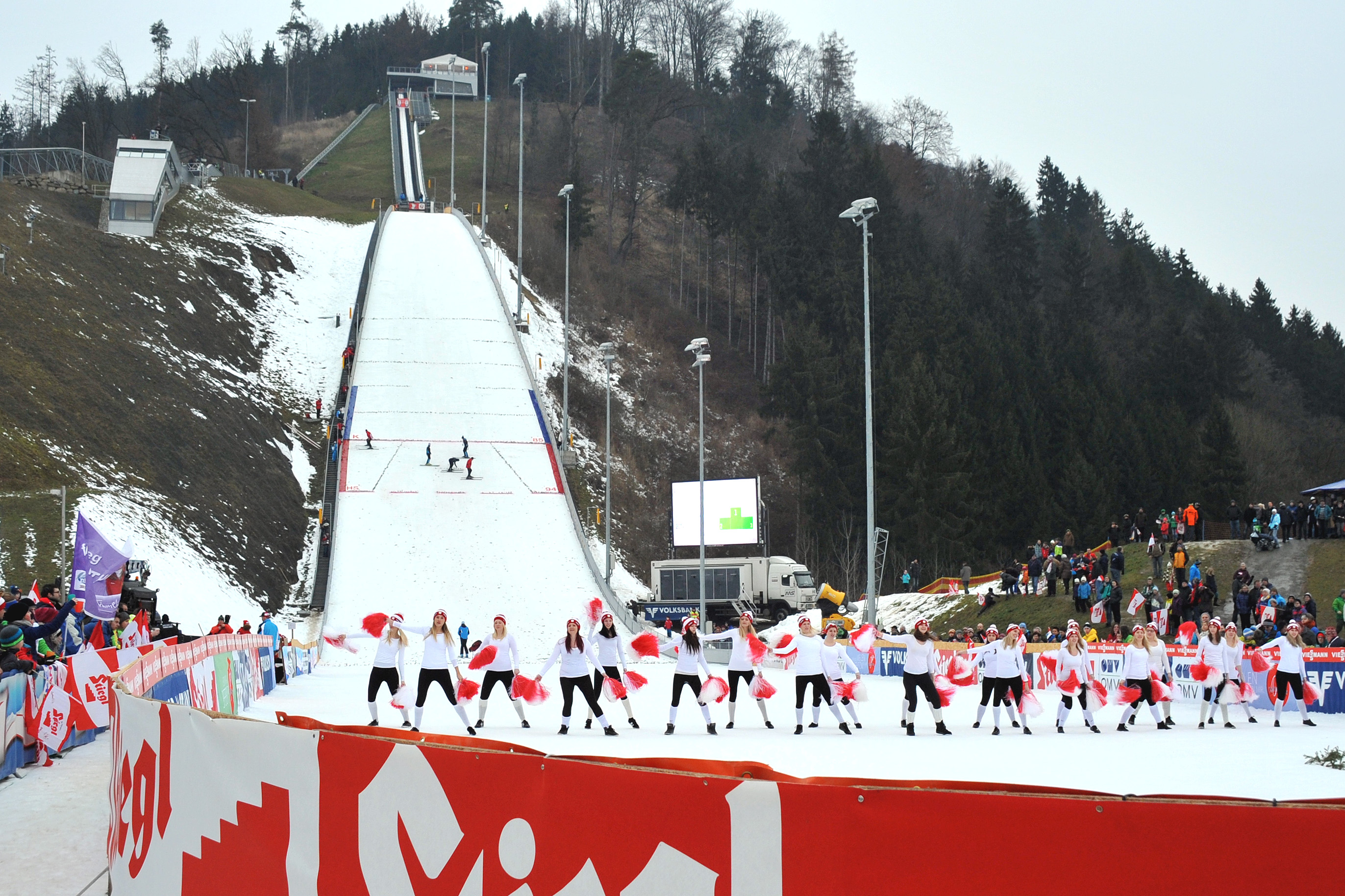 FIS Ski Jumping World Cup Ladies 14th World Cup Competition Normal Hill Individual Hinzenbach (AUT) Sun 2 Feb 2014: Schanze in Hinzenbach mit Rahmenprogramm